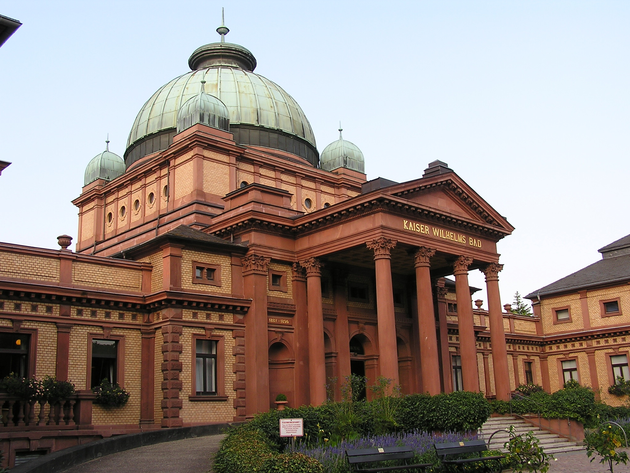 The “Kaiser-Wilhelms-Bad” in the Kurpark of Bad Homburg, Germany